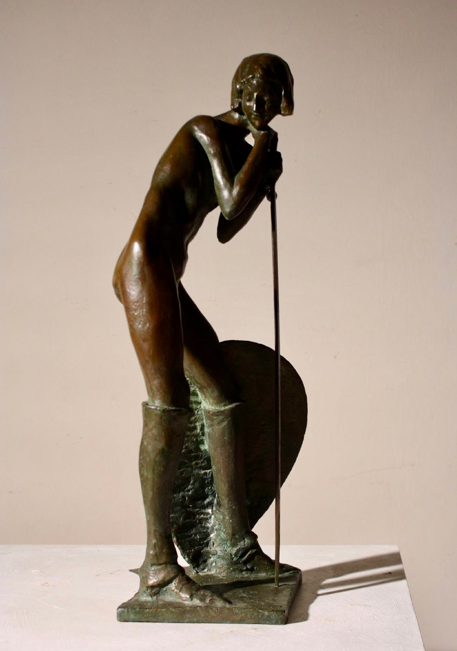 Enrico Mazzolani, L'eroe adolescente (1926)